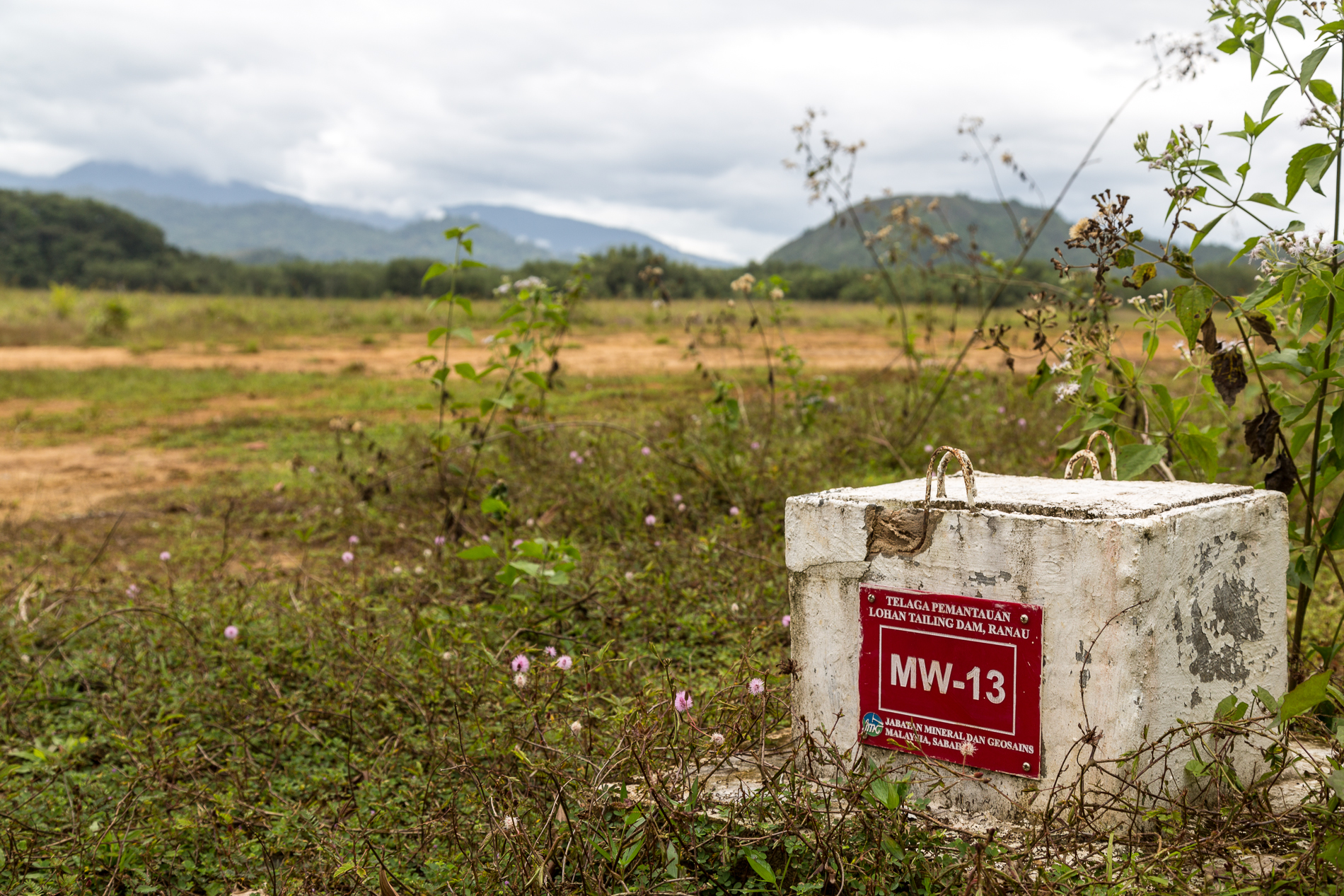 Ranau, Sabah: The Lohan Dam, part of the Mamut Copper Mine. View over the plain on top of the dam with a probing station of the Mineral and Geoscience Department of Malaysia